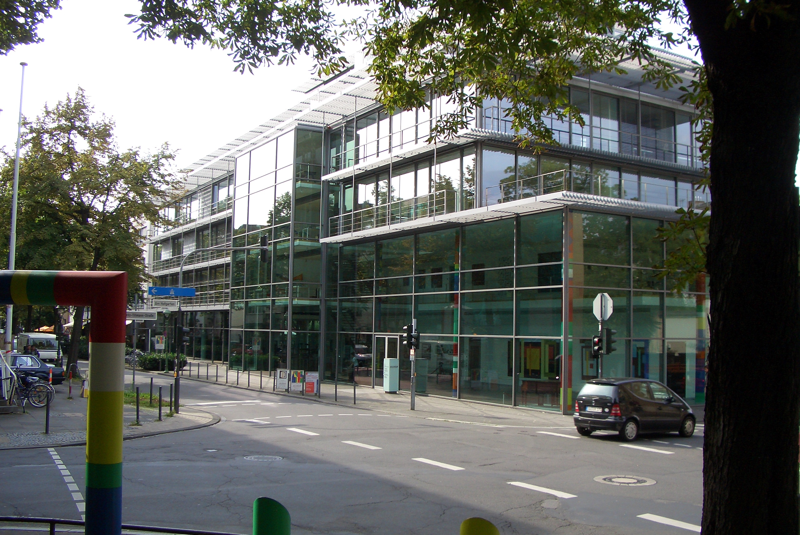 Photo of Arithmeum in Bonn, Germany.